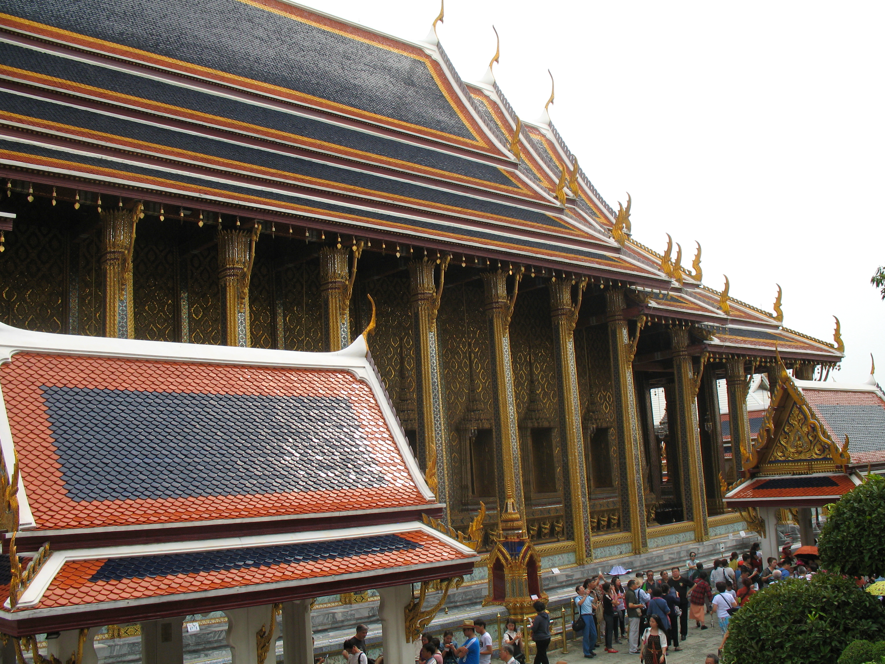 A view of the temple of the Emerald Buddha 2015